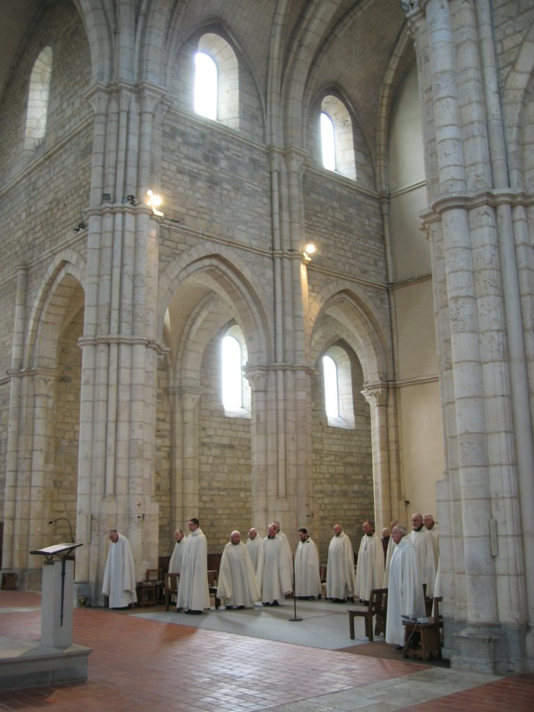 Abbaye d'Acey Jura France